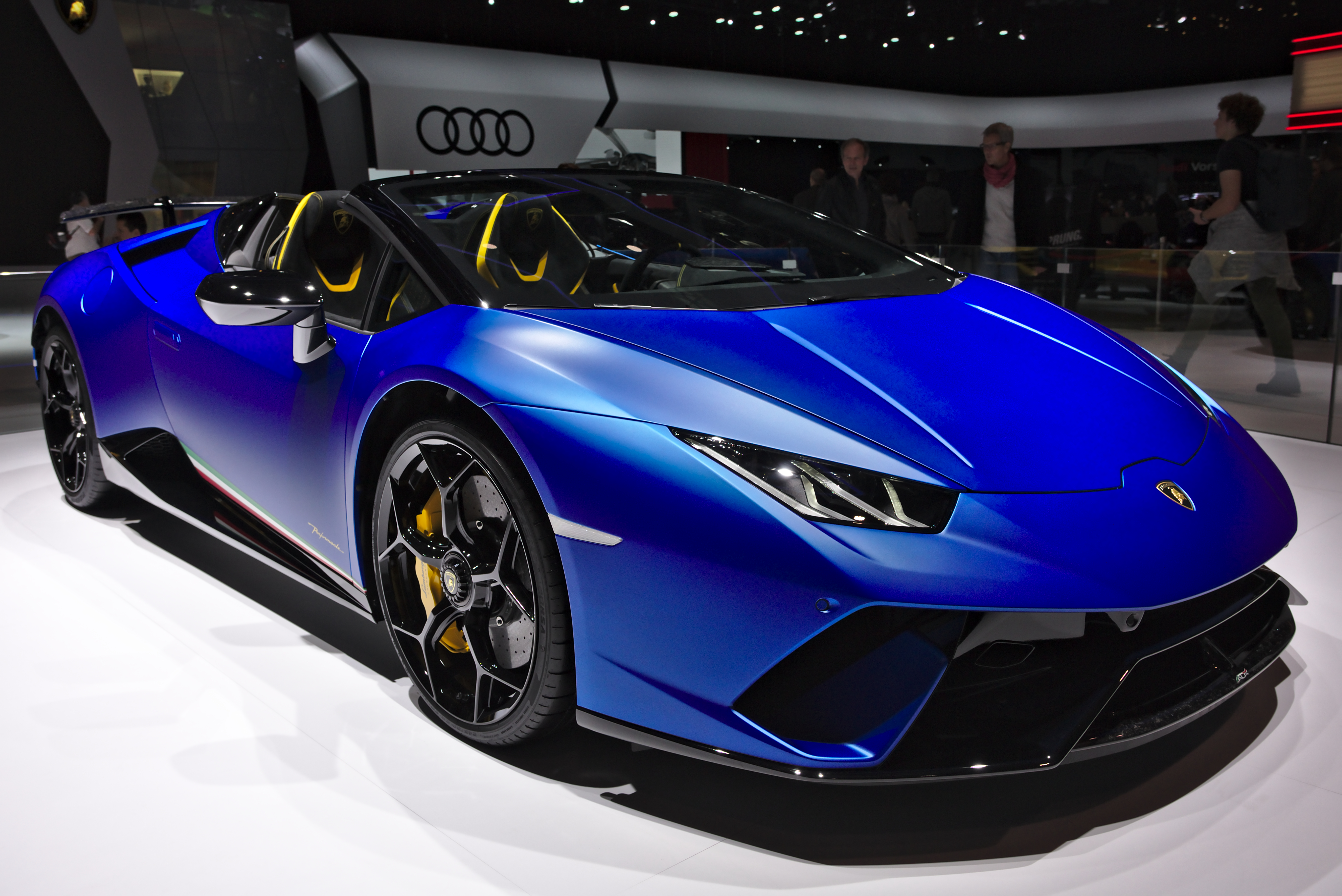 Lamborghini Huracan Spyder Performante at Geneva Motorshow 2018